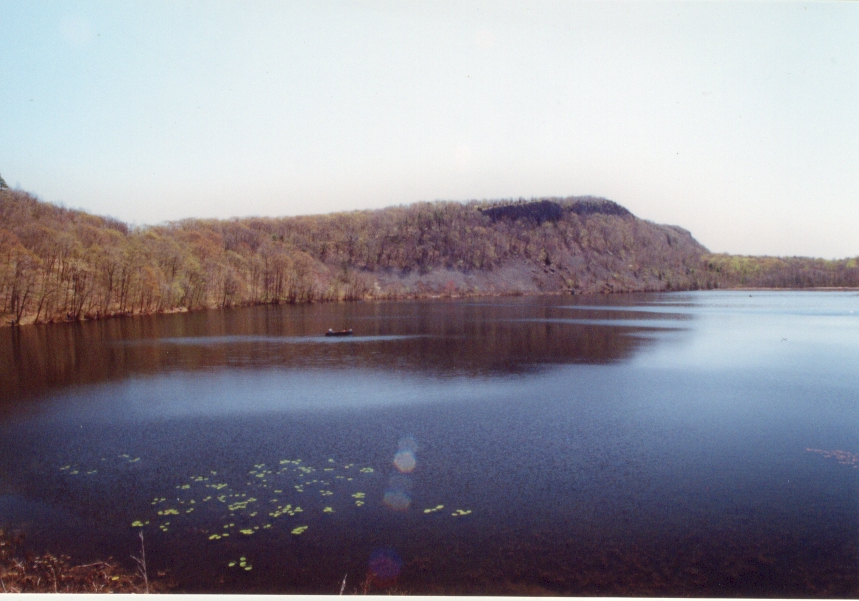 Besek Mountain and Black Pond. Connecticut. by Paul Gagnon